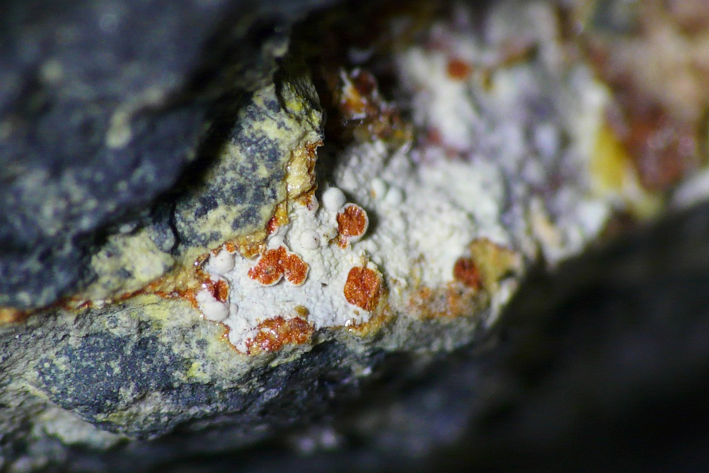 red-brown Umohoite from Mas d´Allary, Herault, Languedoc-Roussillon, France, FOV 6mm